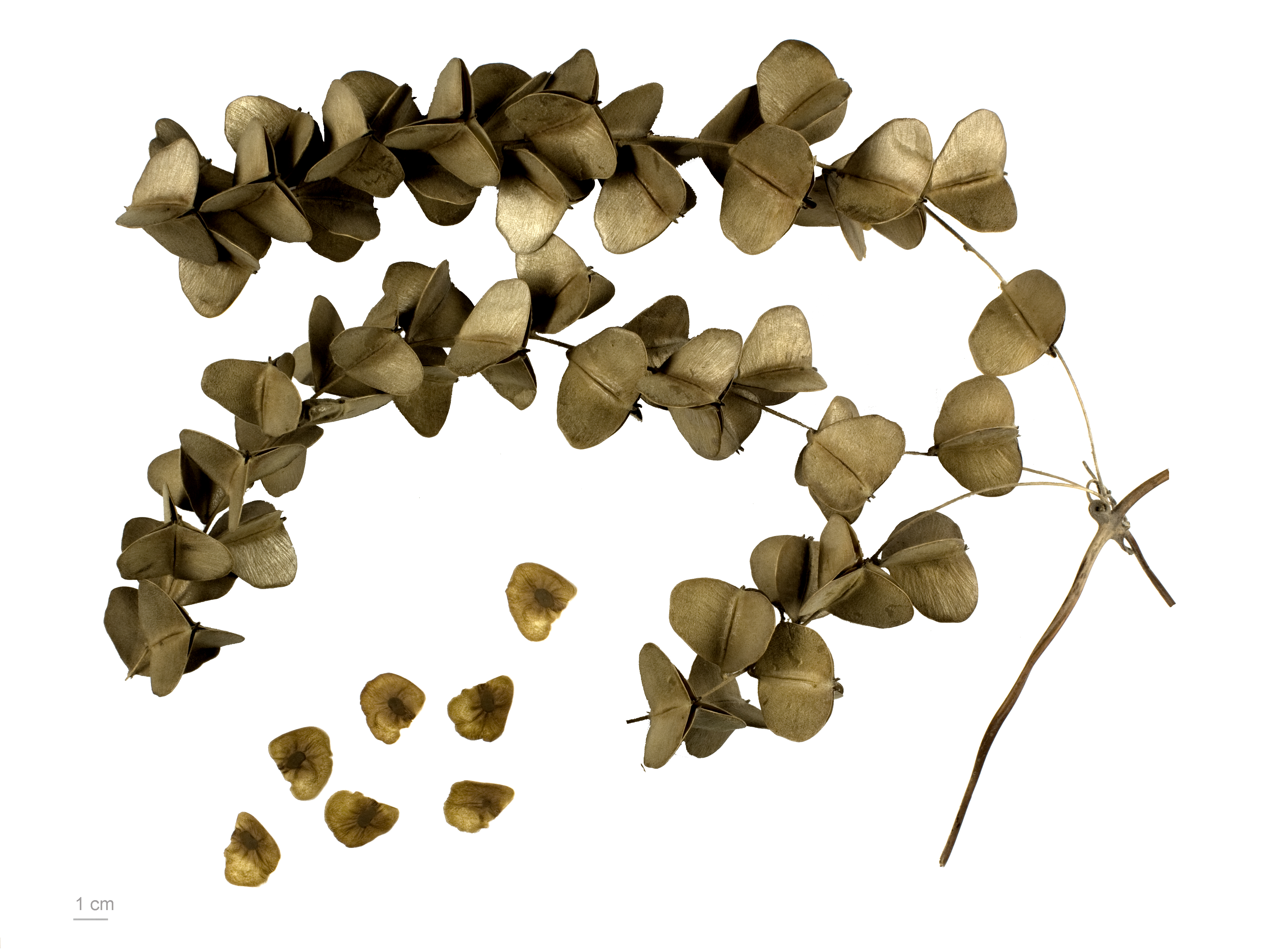 Dioscorea sp. , fruits and seeds